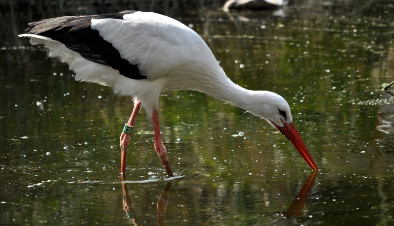 Nature and Colors